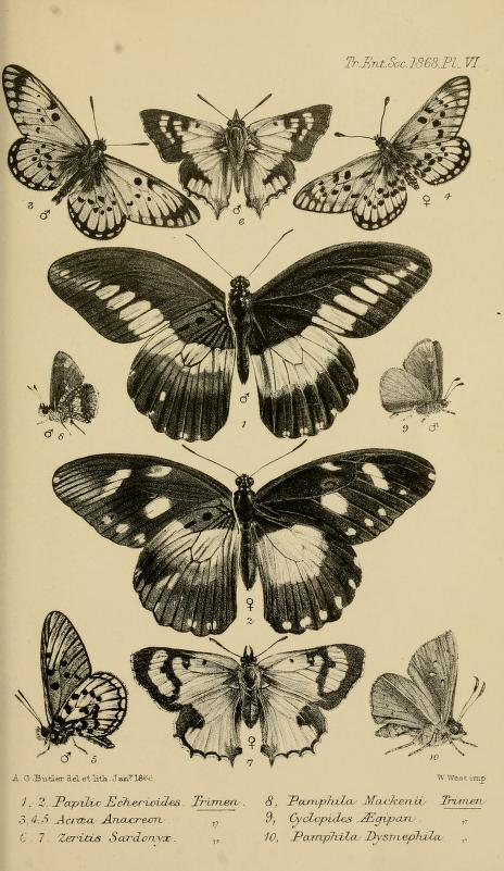 TransactionsRES1868PlateVI